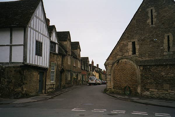 Lacock (National Trust) Village Street. The street is situated in the centre of the square. This interesting village has been used as a film set on more than one occasion. The village is to the west of the Abbey.